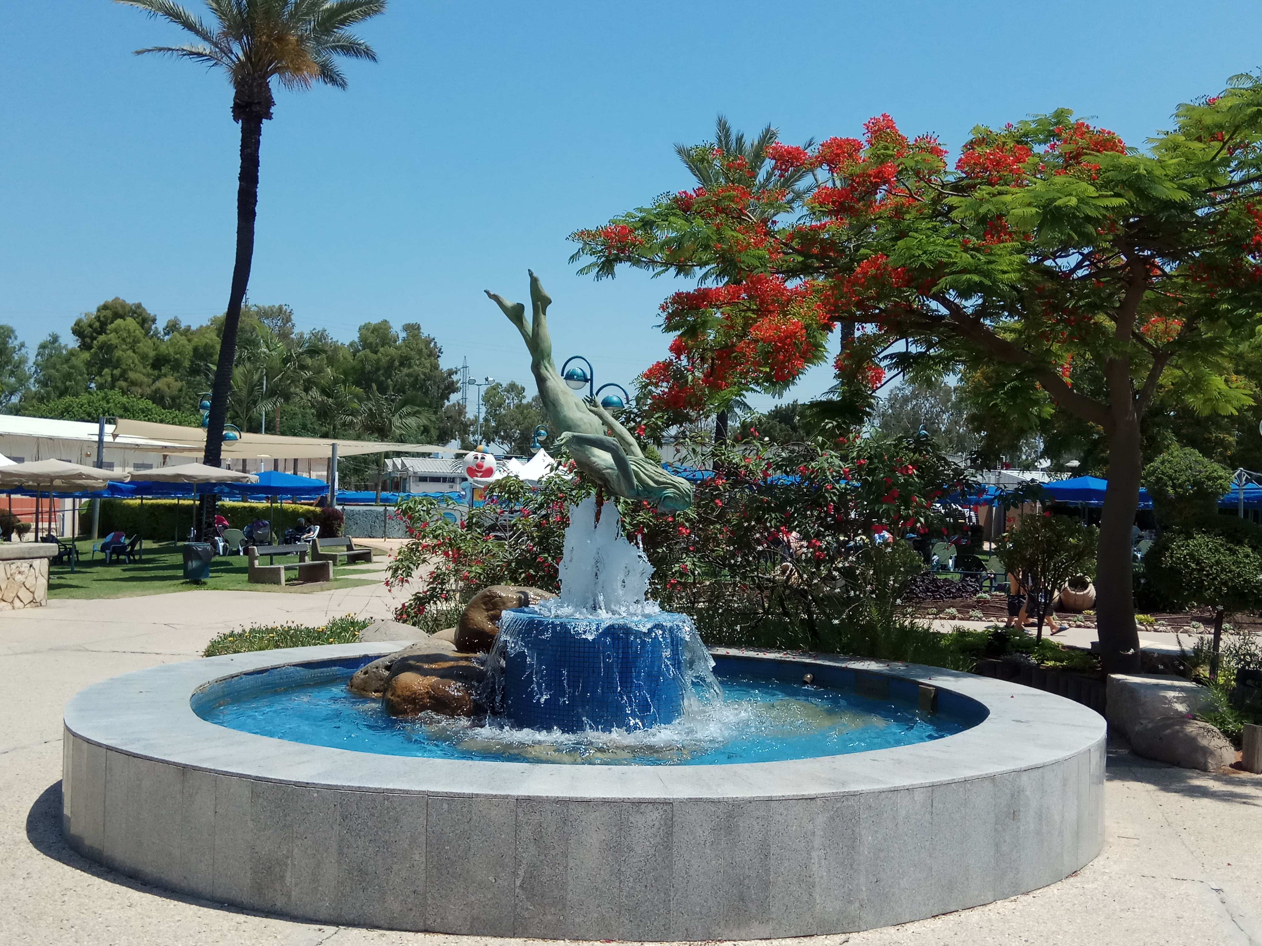 Fountain at Holon Country Club